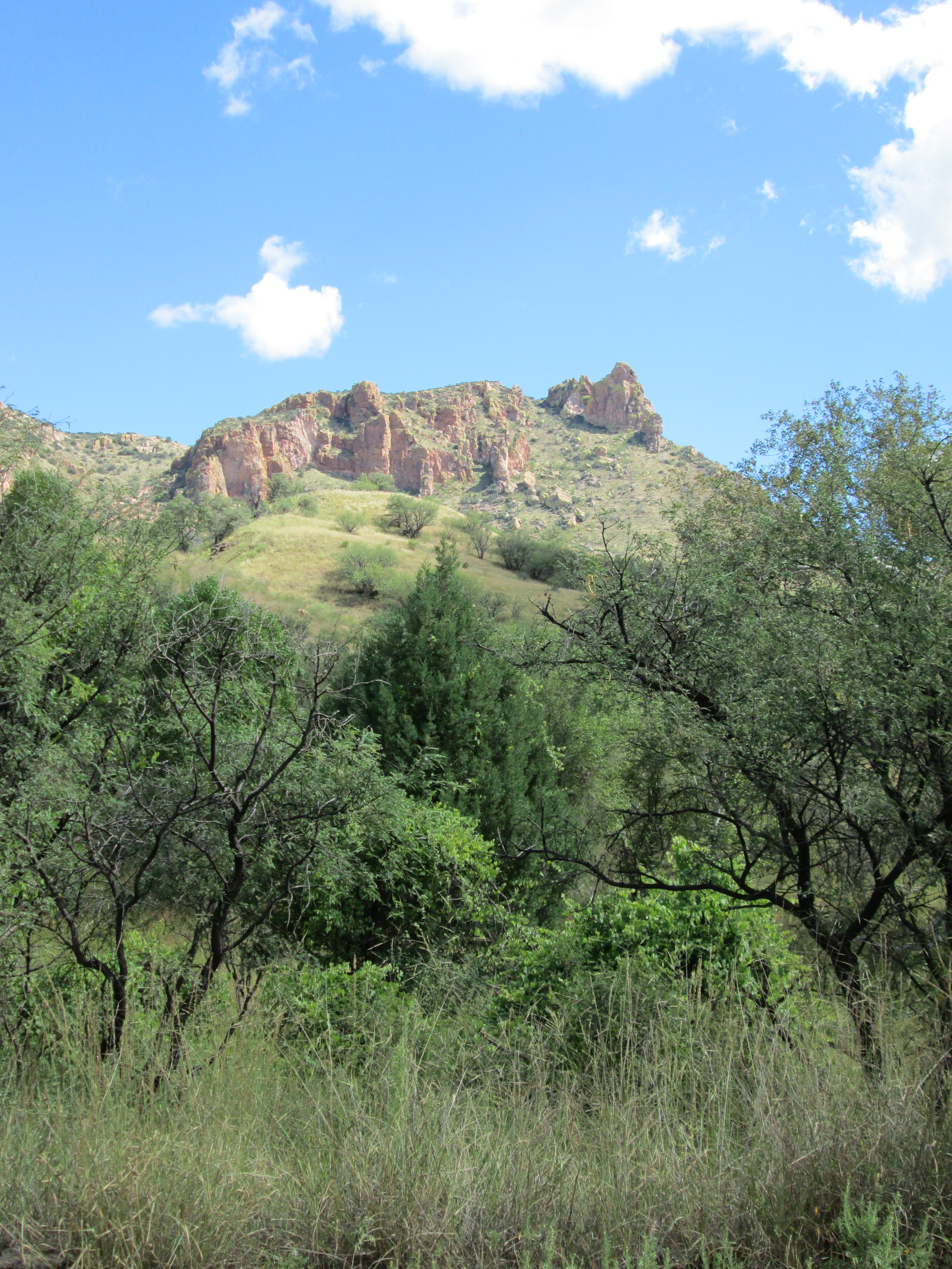 The Patagonia Mountains, south of Patagonia, Arizona.